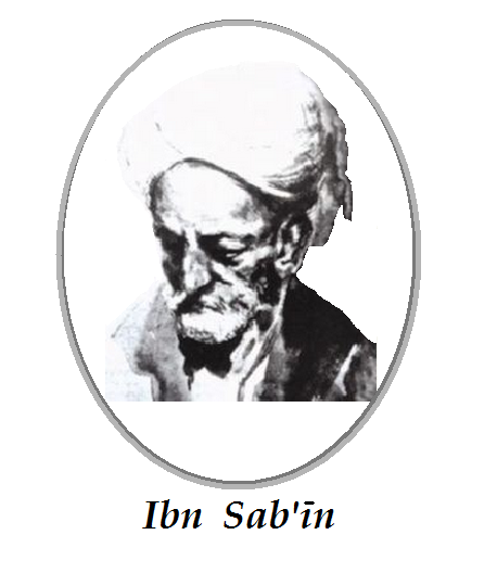 ʻAbd al-Ḥaqq ibn Ibrāhīm Ibn Sabʻīn or " Ibn Sabʻīn " was a mystic and philosopher al-Andalus Islamic and Sufi-inspired